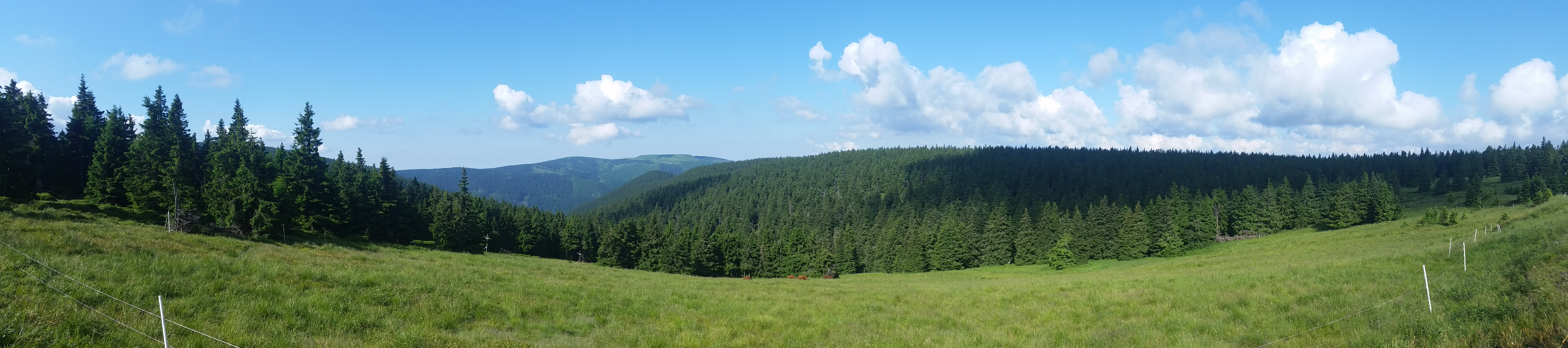 view from Švýcárna to Dlouhé Stráně